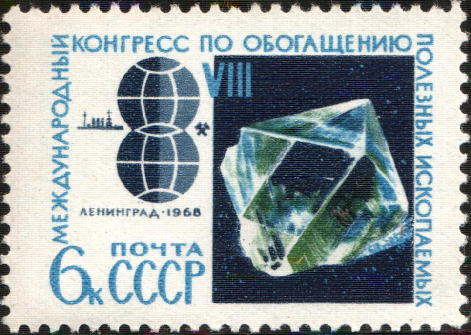 USSR stamp: 8th International Congress on Mineral Processing (1968, Leningrad). Gem and Emblem. Series: International Scientific Congresses to Be Held in USSR